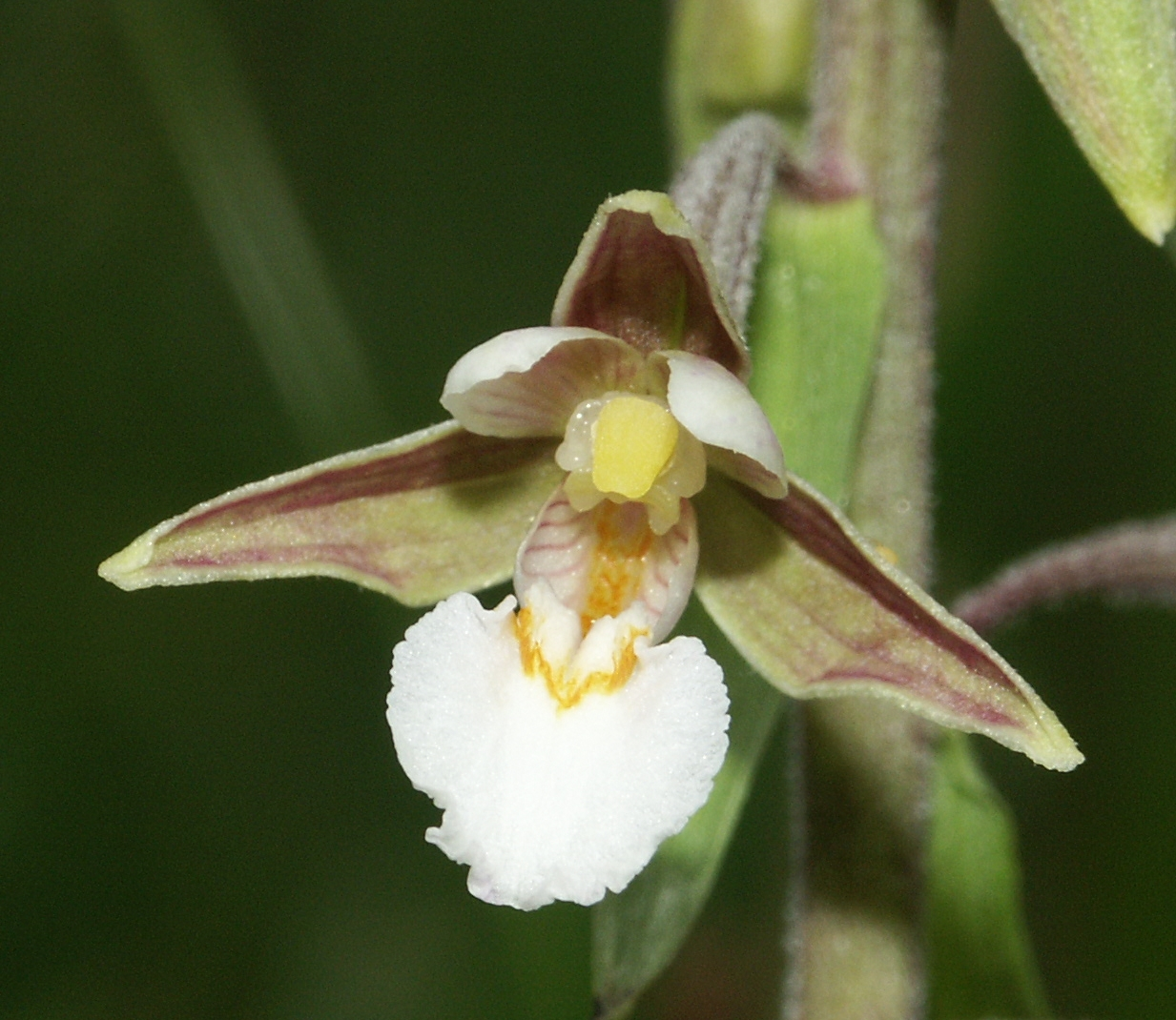 Epipactis palustris, Virngrund, Germany